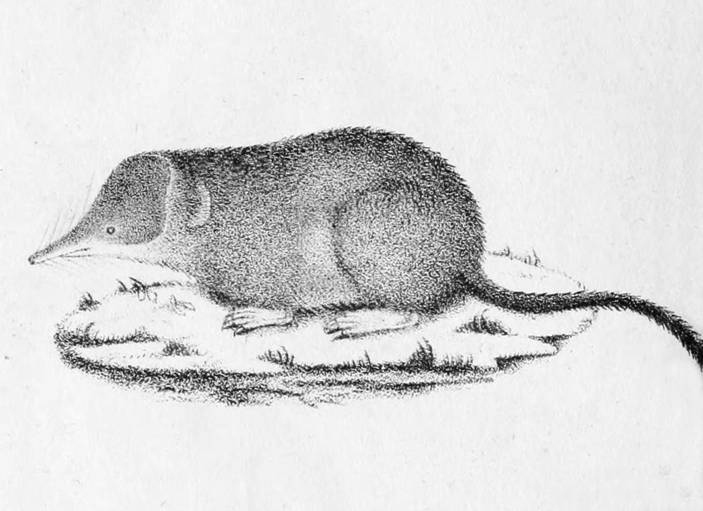 Sorex coronatus (Crowned Shrew)